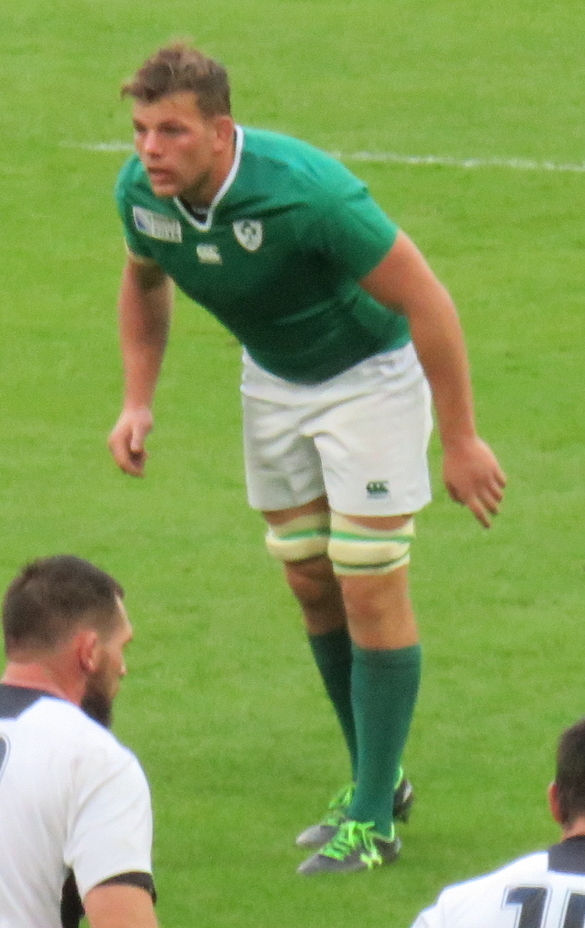 2015 Rugby World Cup game Ireland vs Romania at Wembley Stadium, London.